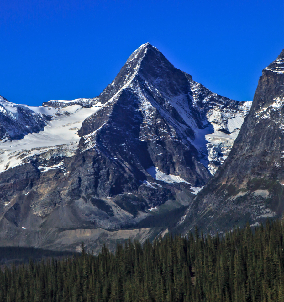 Mt Fox of Selkirk Mountains seen from the east